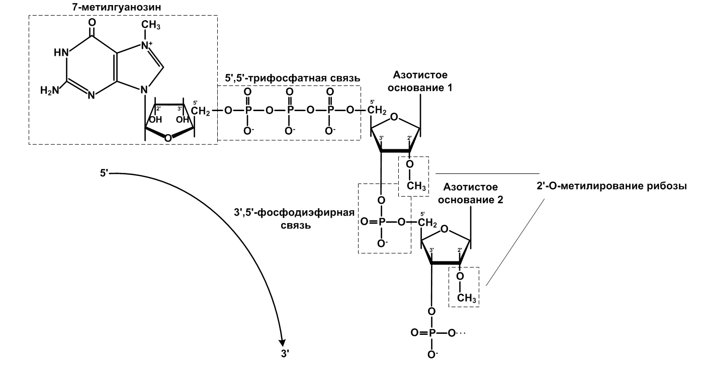 mRNA cap structure